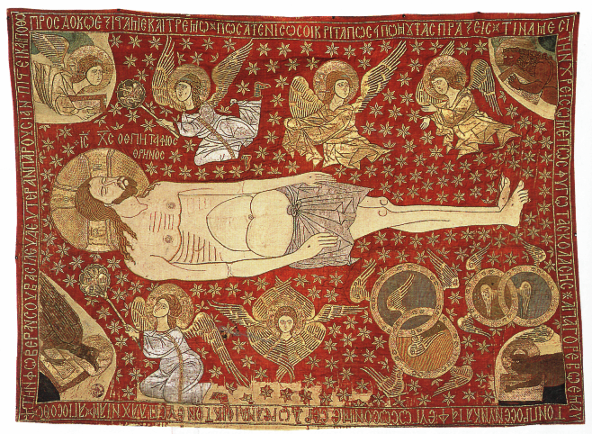 Megala Meteora